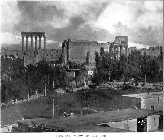 Baalbek 1906